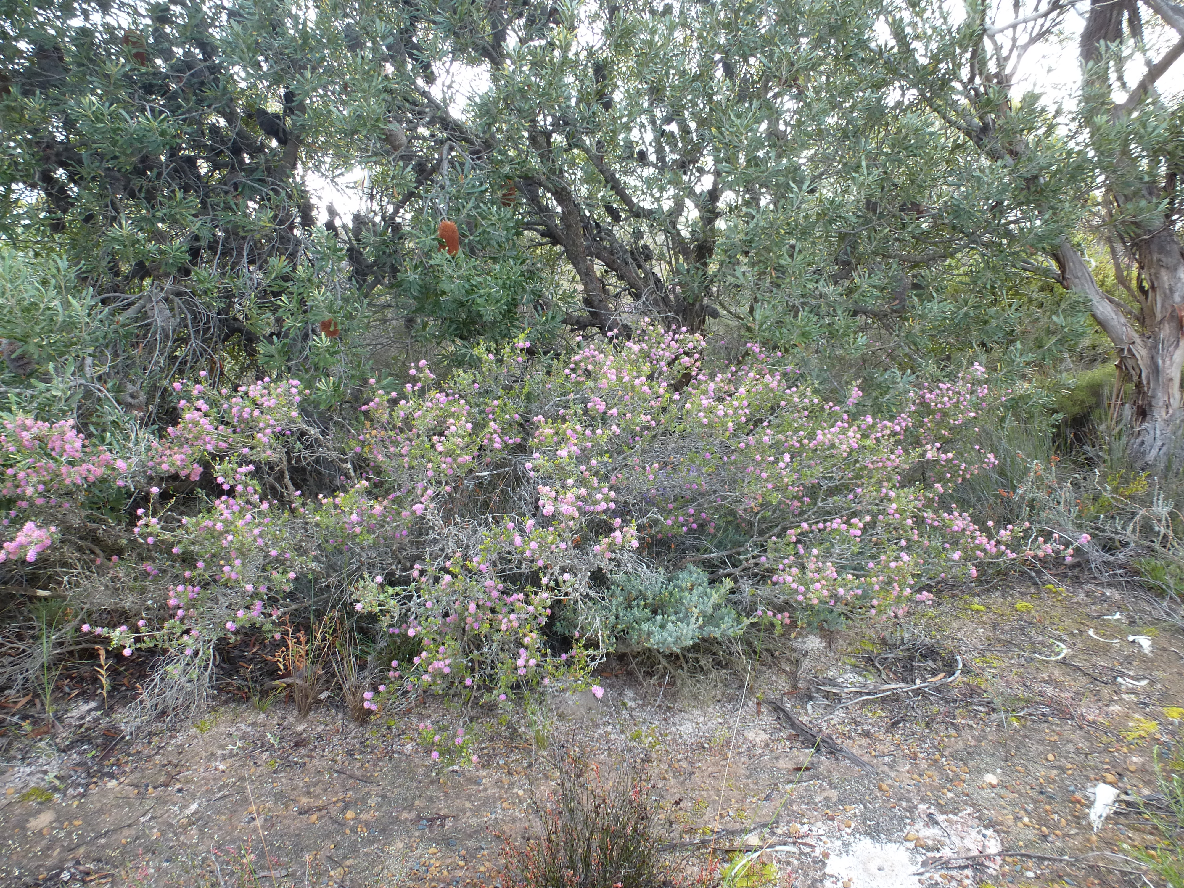 Melaleuca societatis growing at the type location 17 km south of Lake King